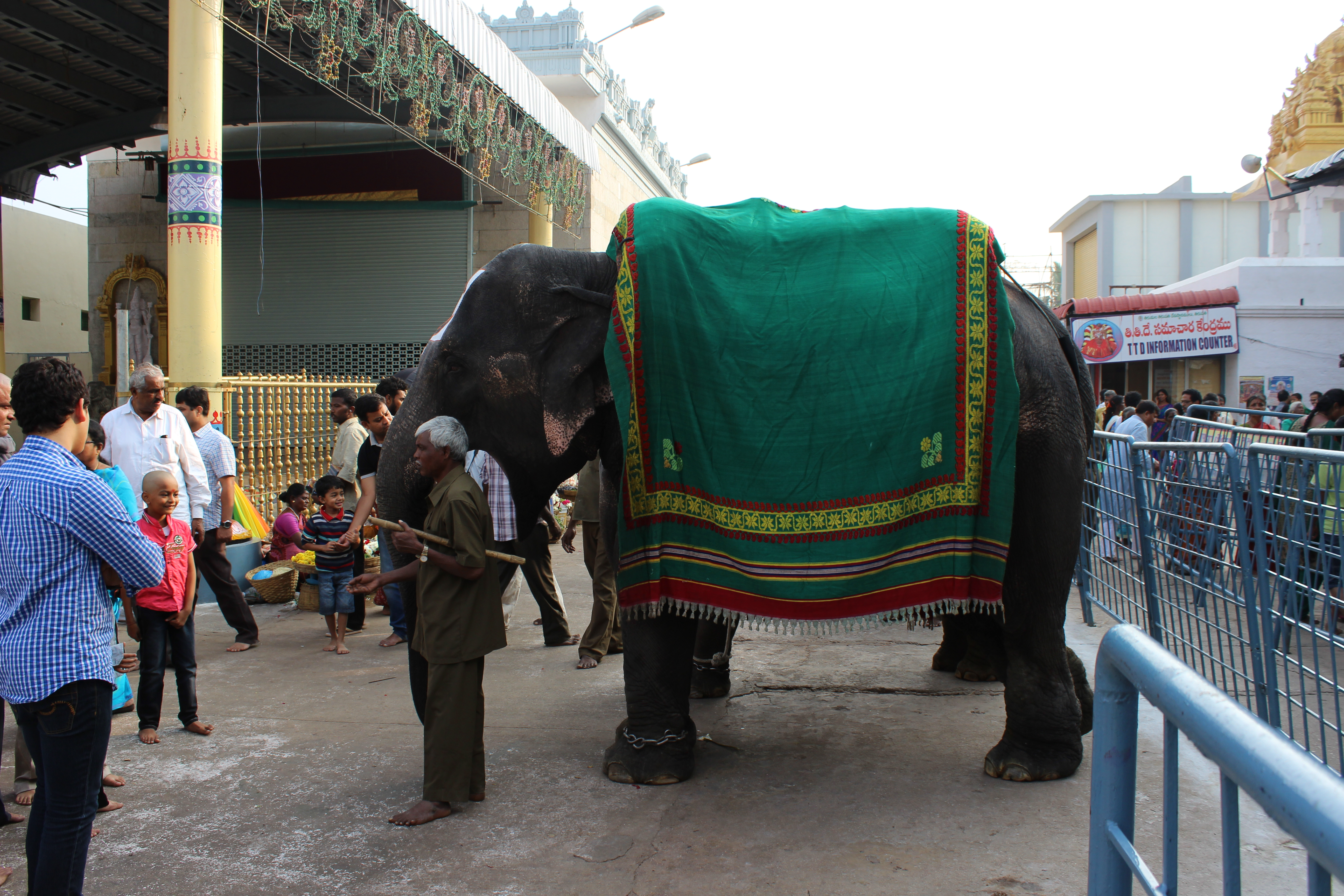 Thiruchanur